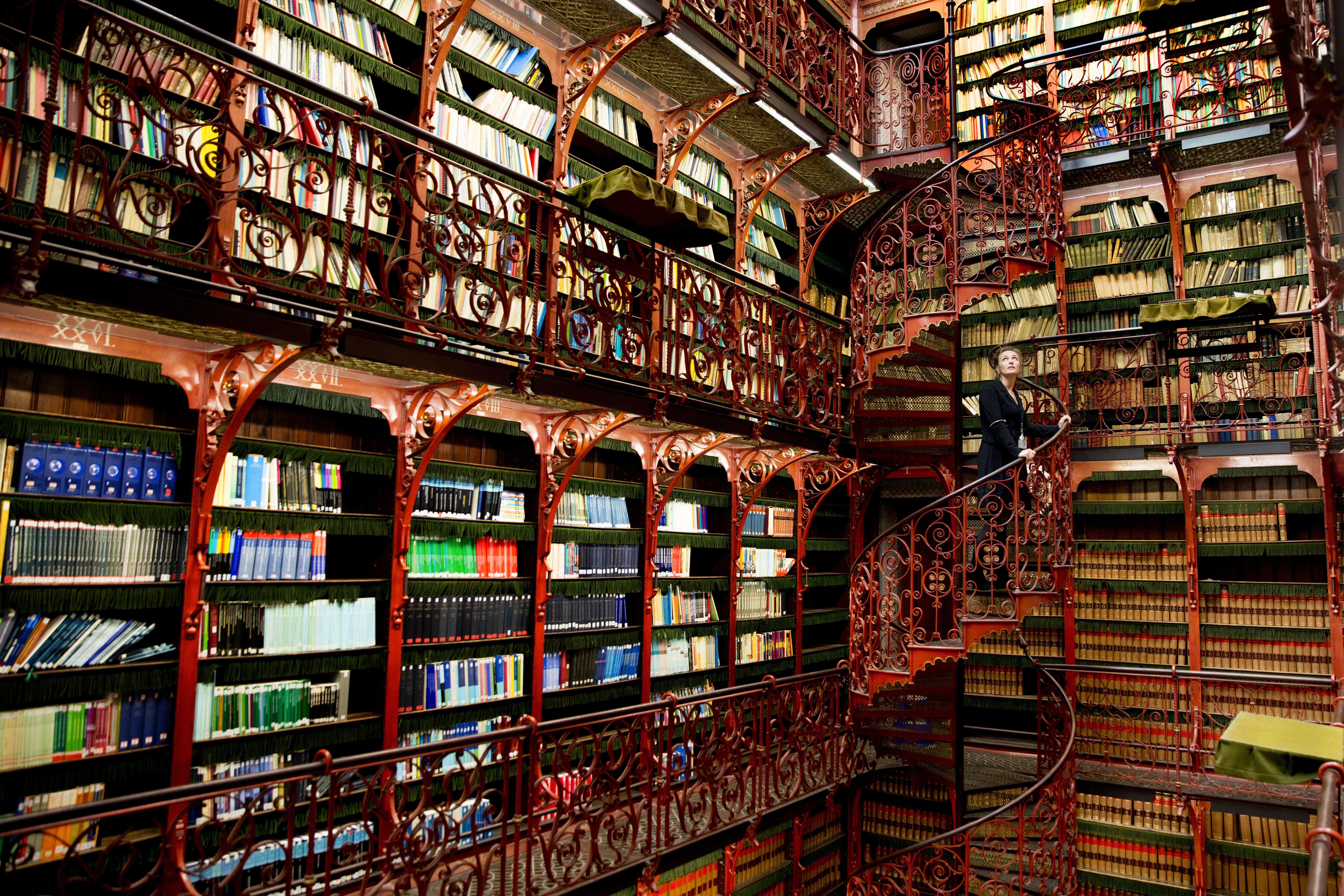 Handelingenkamer bibliotheek binnenhof fotograaf arenda oomen